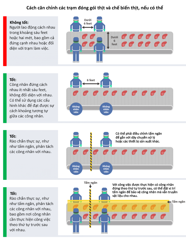 COVID-19 Meat and Poultry Processing Workers and Employers Interim Guidance: Modify the alignment of workstations, including along processing lines, if feasible, so that workers are at least six feet apart in all directions (e.g., side-to-side and when facing one another), when possible. Ideally, modify the alignment of workstations so that workers do not face one another. Consider using markings and signs to remind workers to maintain their location at their station away from each other and practice social distancing on breaks.